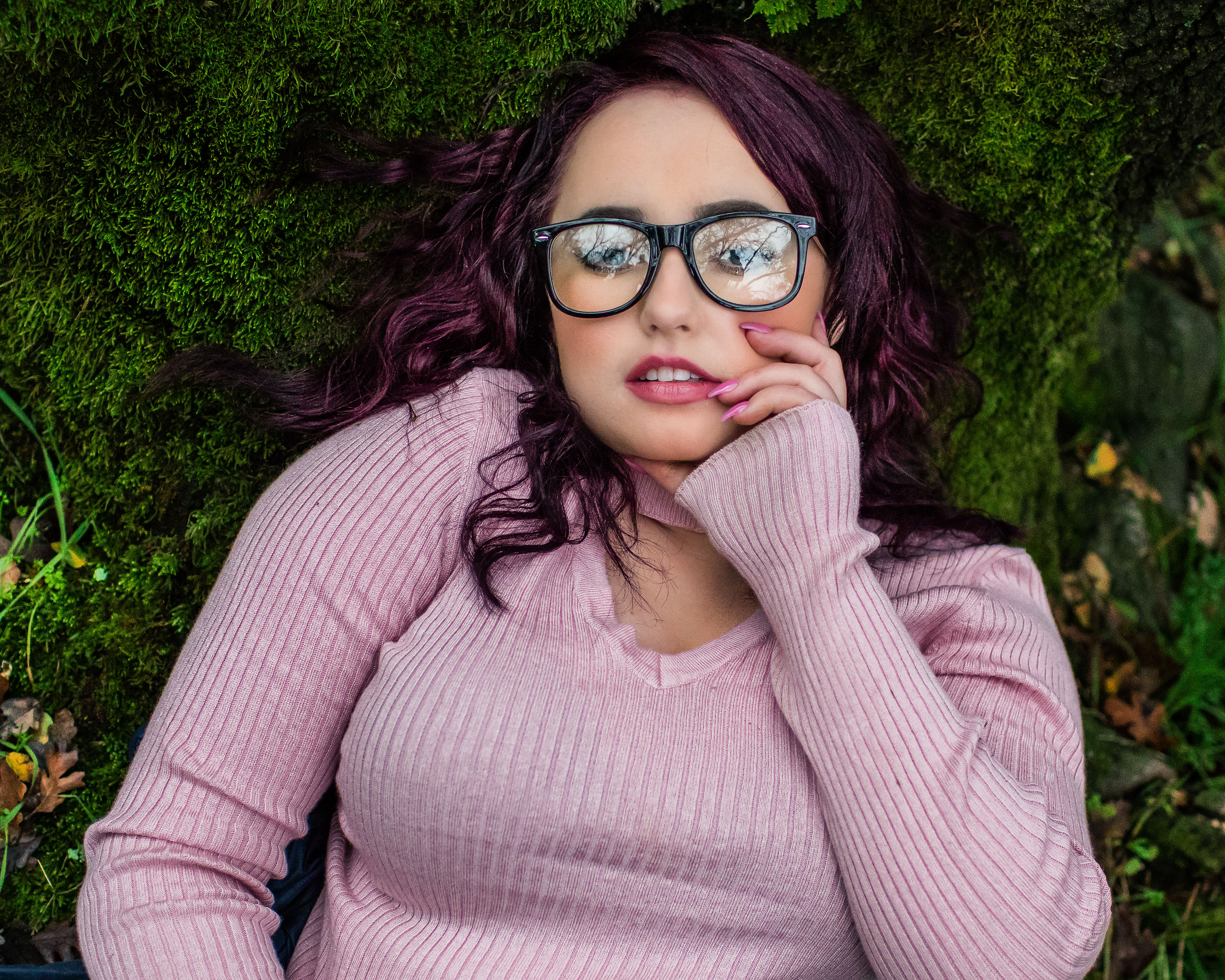 Woman wearing glasses